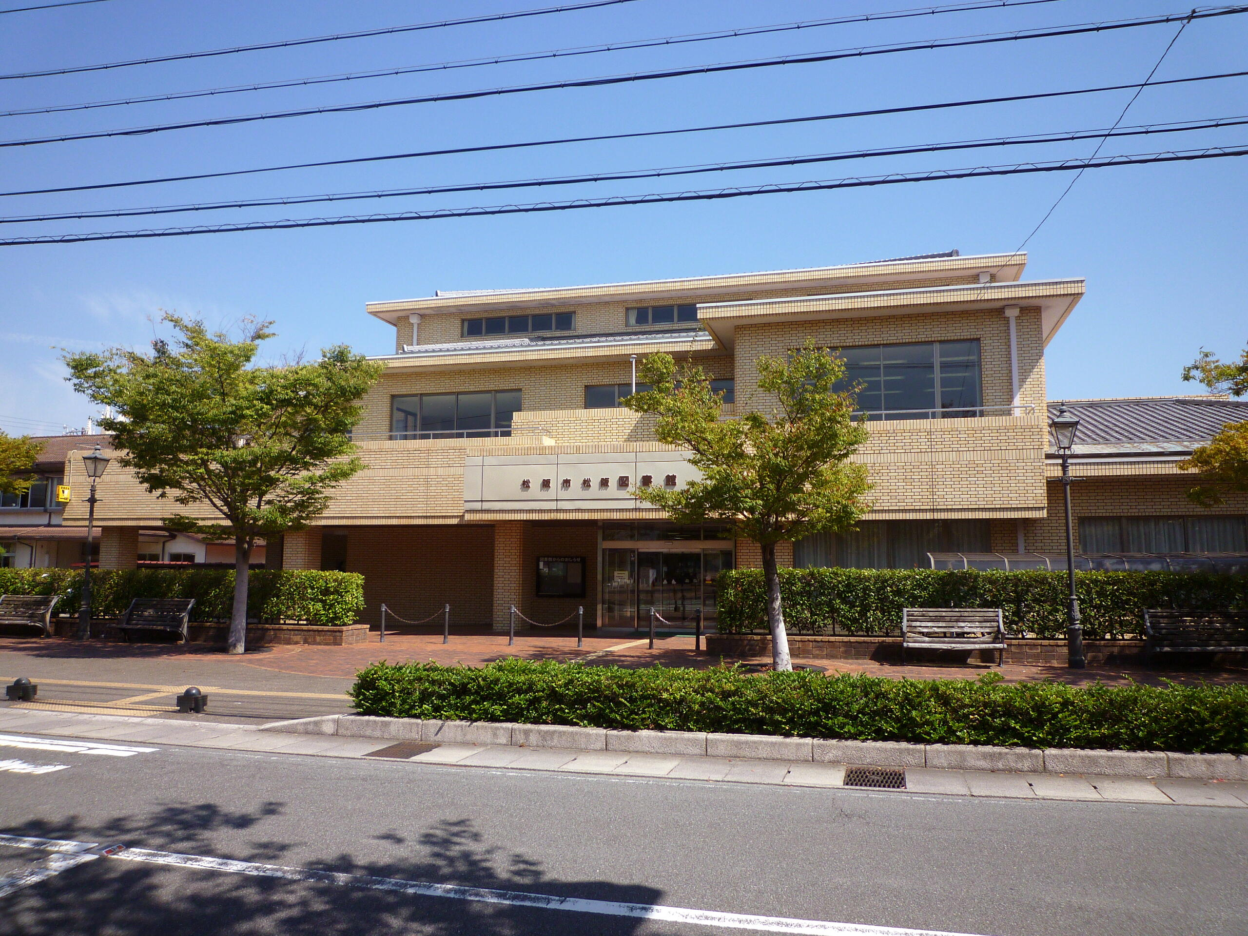 The "Matsusaka City Matsusaka Library" in Matsusaka City, Mie Prefecture, Japan.